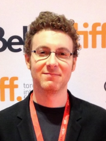 Nicholas Britell at the premiere of "12 Years a Slave" at the Toronto International Film Festival